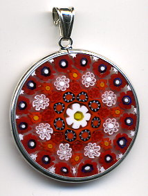 Genuine Murano millefiori pendant.